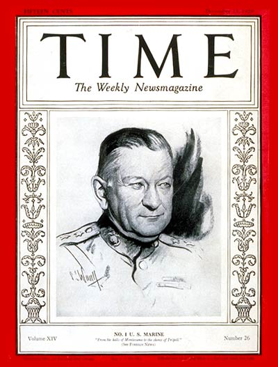 Wendell Cushing Neville - On the cover of Time in 1929